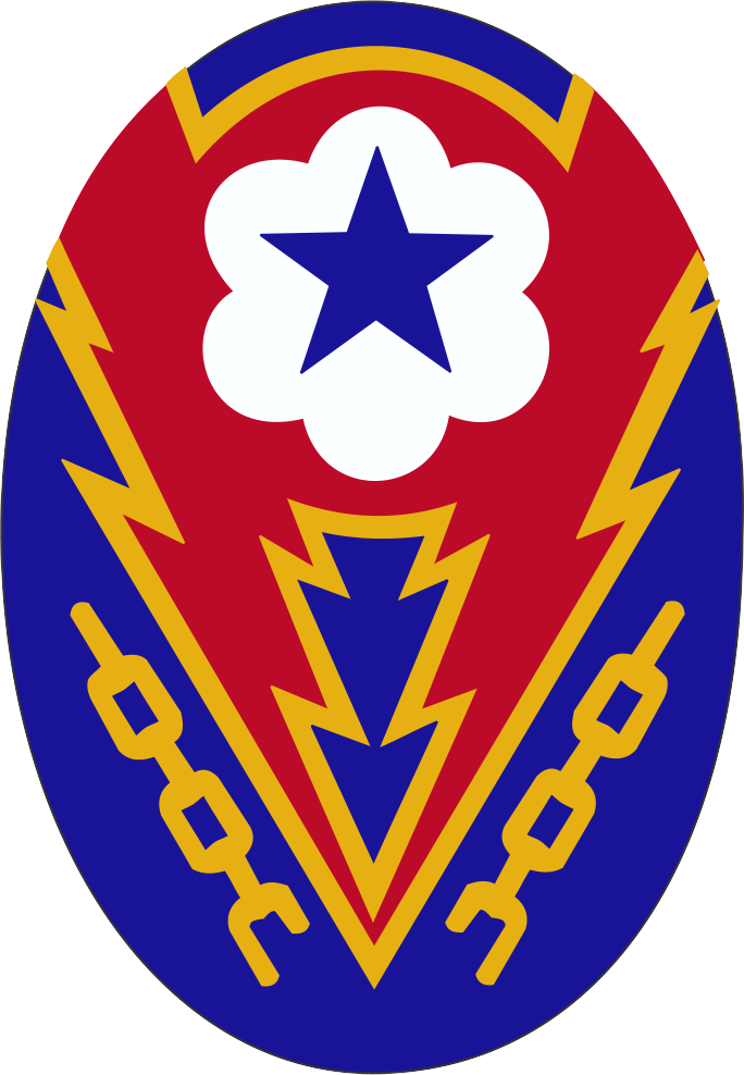 Shoulder Sleeve Insignia for the Advanced Section/Communication Zone during World War II.